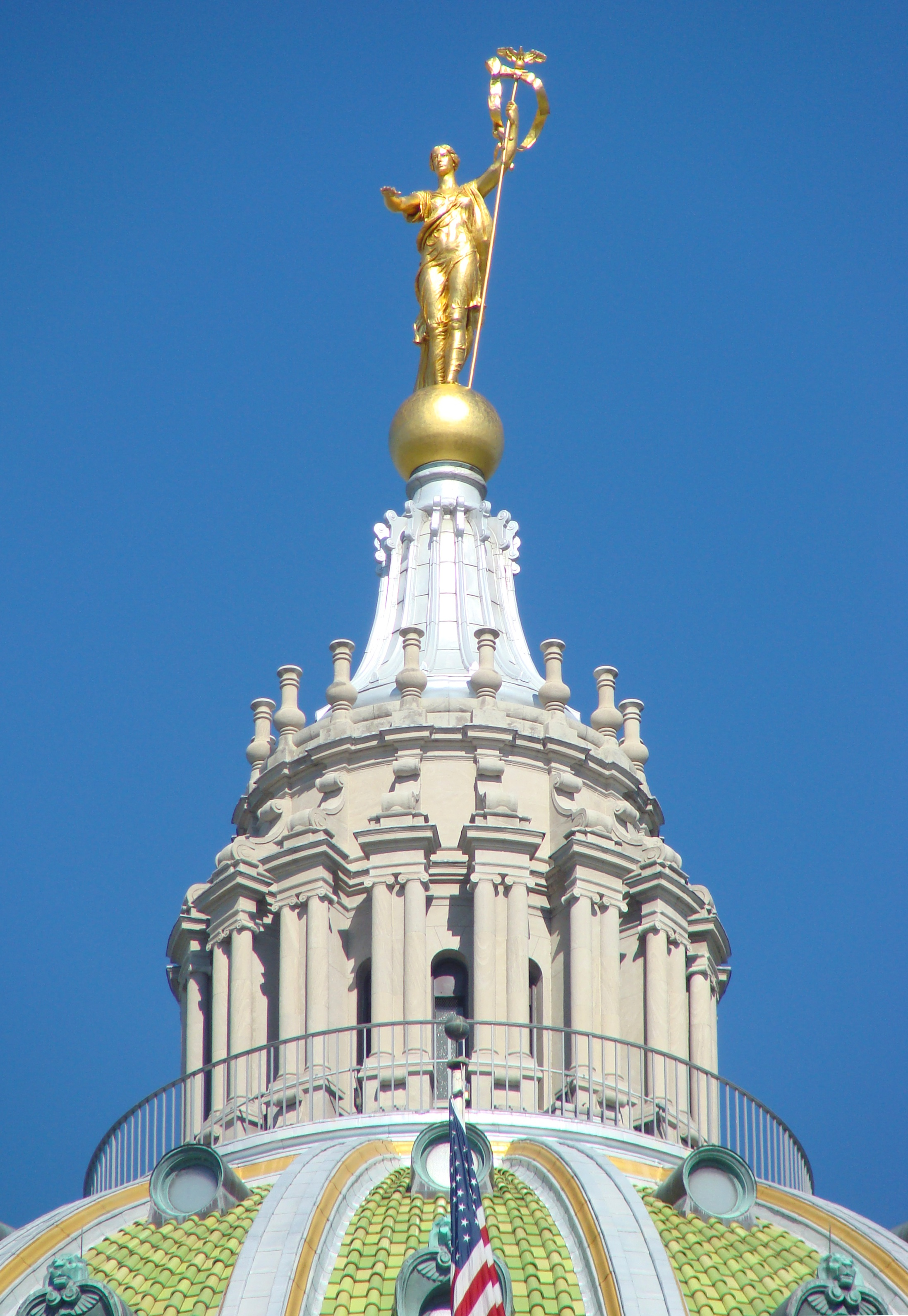 The lantern on the dome of the Pennsylvania State Capitol in Harrisburg, Pennsylvania. The statue Commonwealth stands atop the lantern.